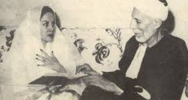 Laila Murad converting to Islam 1947, Sheikh Hassan Mamoun?